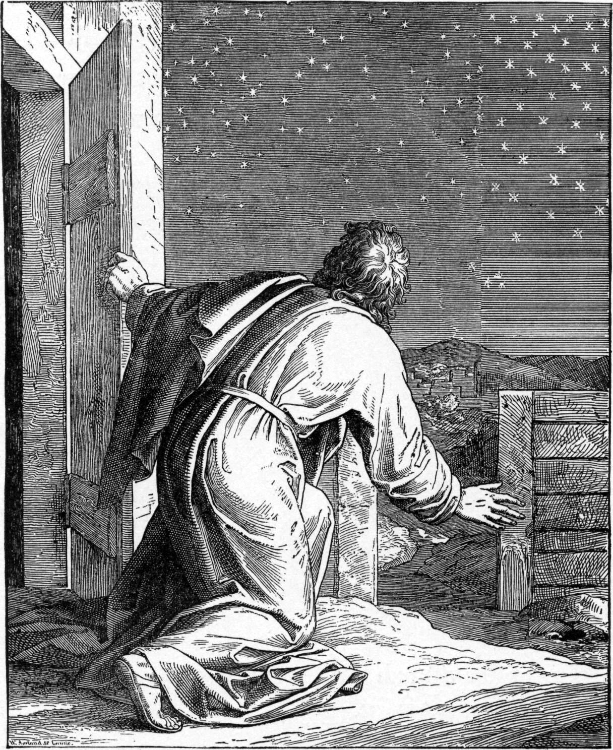 Abraham look up at the sky.